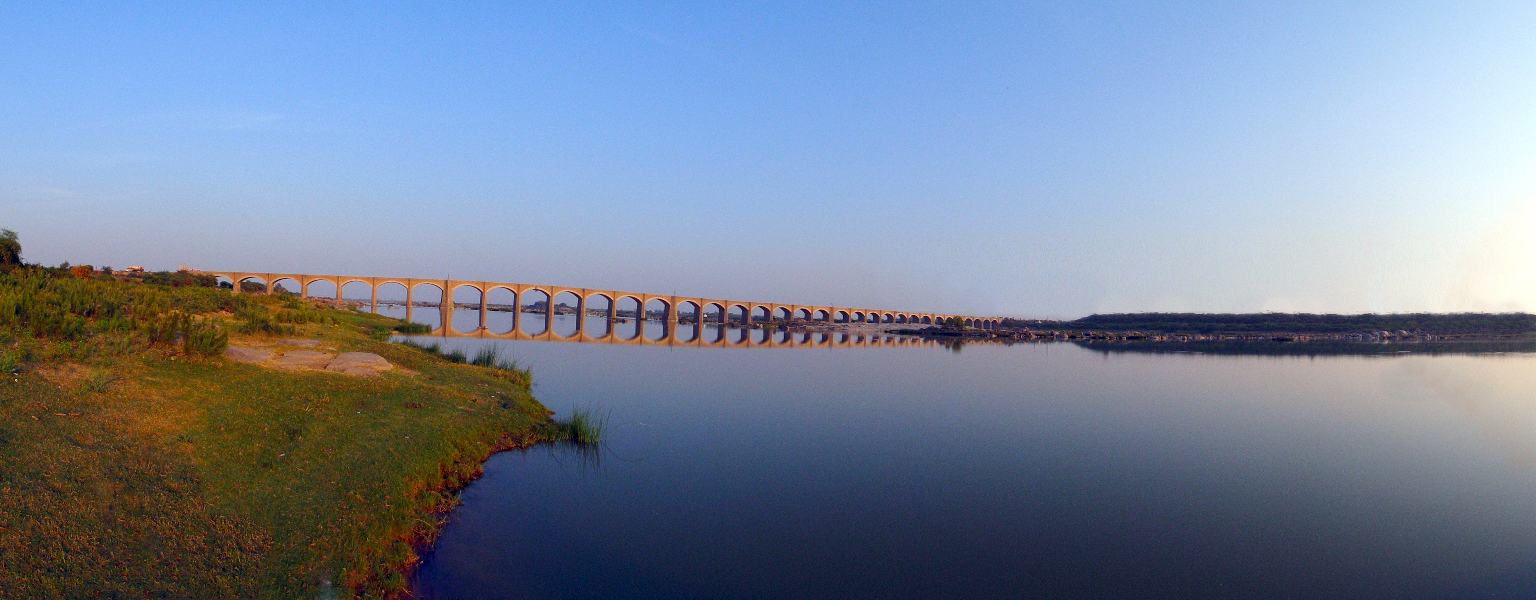 View of krishna river at raichur